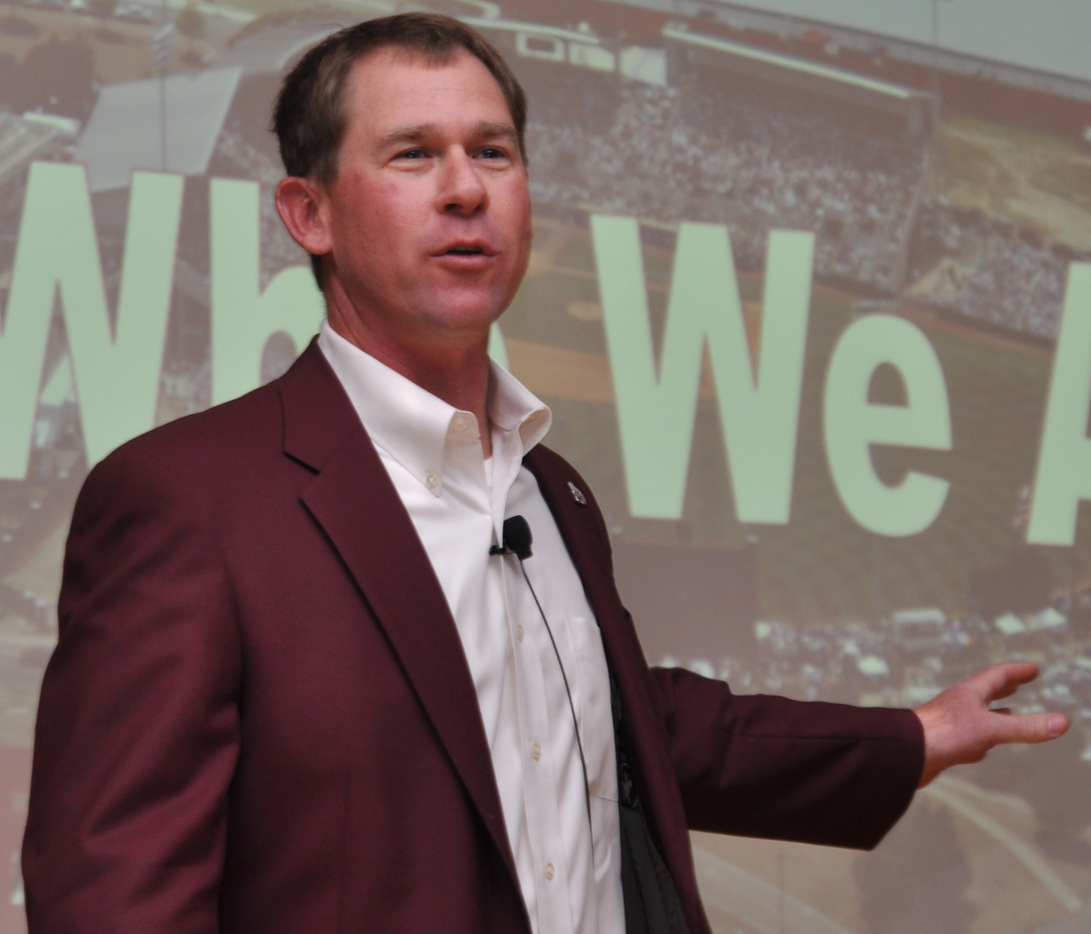 John Cohen, Mississippi State University’s head baseball coach speaks during the third Annual Sports Awards Banquet at the Columbus Club on Feb. 28. Coach Cohen has been coaching college baseball for nearly 20 years and says he uses concepts he got from the military when training his players. (U.S. Air Force photo/Airman 1st Class Chase Hedrick)